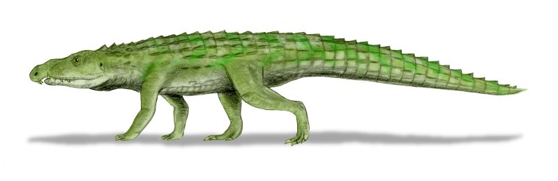 Riojasuchus tenuiceps, a ornithosuchid from the Late Triassic of Argentina, after Bonaparte, 1971, pencil drawing, digital coloring